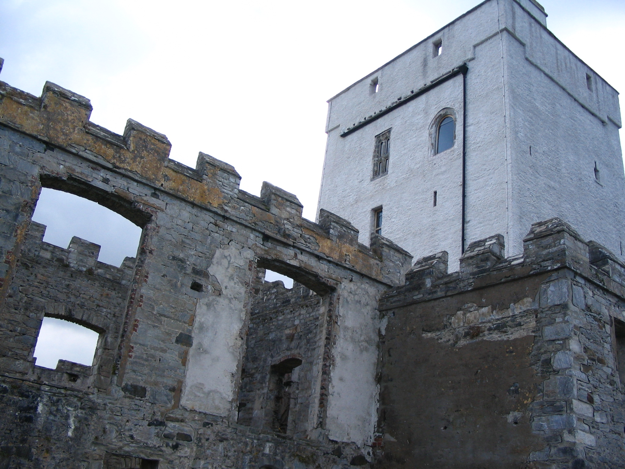 Doe Castle - detail - Donegal county - Ireland